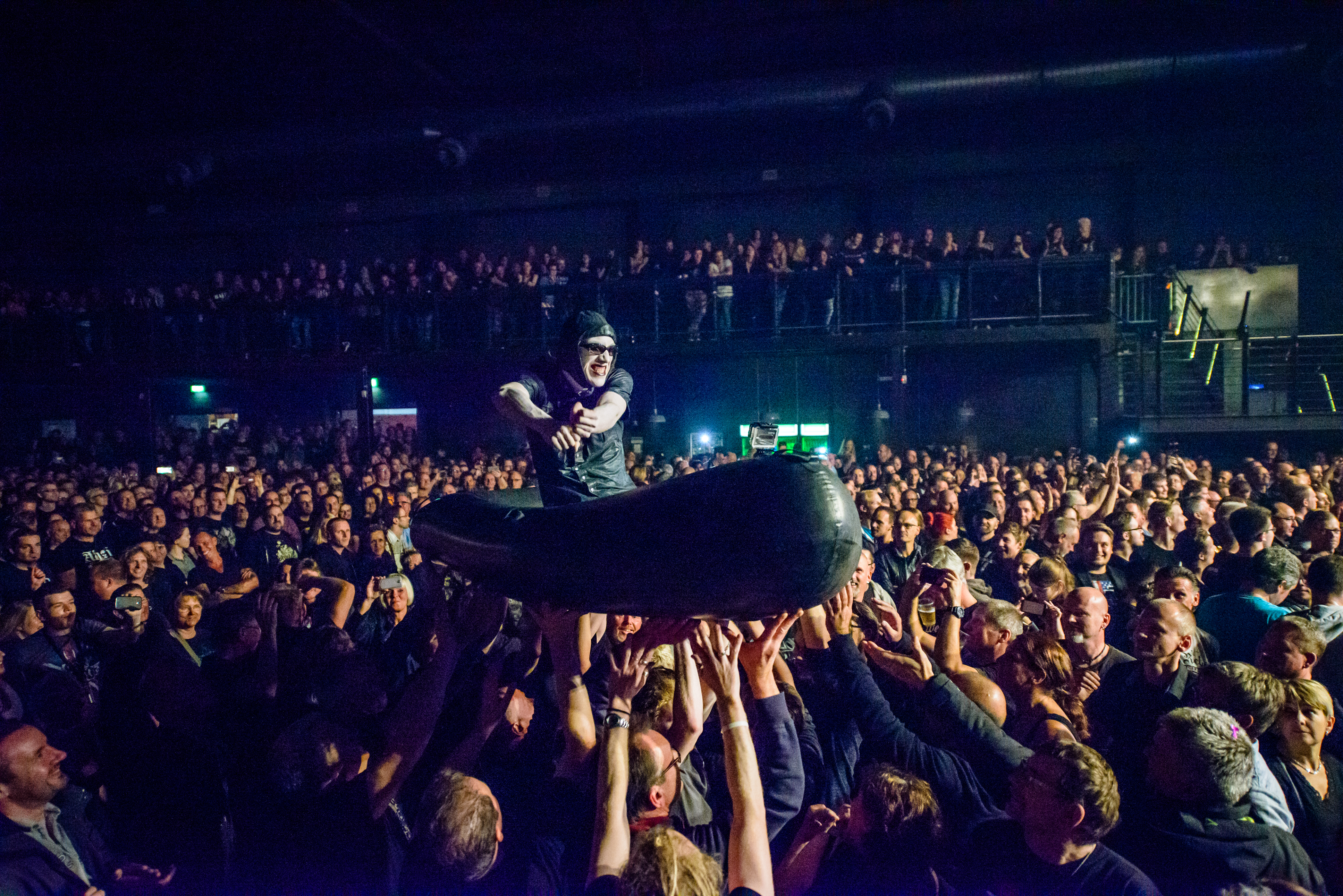 Völkerball - a tribute to Rammstein; Turbinenhalle Oberhausen 2016